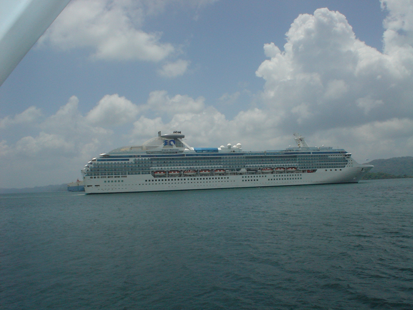 The following is the author's description of the photograph quoted directly from the photograph's Flickr page."Stand face-to-face with the grandeur of the Panama Canal an engineering marvel aboard the Coral Princess. When our ship enters the canal it rose 85 feet in one of the legendary Gatun Locks. It%u2019s an amazing experience. The Panama Canal transverses the Isthmus of Panama in Central America, connecting the Atlantic and Pacific Ocean The construction of the canal was one of the largest and most difficult engineering projects ever undertaken. It has had an enormous impact on shipping, as ships no longer have to travel the long and treacherous route via the Drake passage and Cape Horn at the southernmost tip of South AmericaWhat makes the Panama Canal remarkable is its self sufficiency. The dam at Gatun, is able to generate the electricity to run all the motors which operate the canal as well as the locomotives in charge of towing the ships through the canal. No force is required to adjust the water level between the locks except gravity. As the lock operates, the water simply flows into the locks from the lakes or flows out to the sea level channels. The canal also relies on the overabundant rainfall of the area to compensate for the loss of the 52 million gallons of fresh water consumed during each crossing.See set comments for Panama Canal Overview "